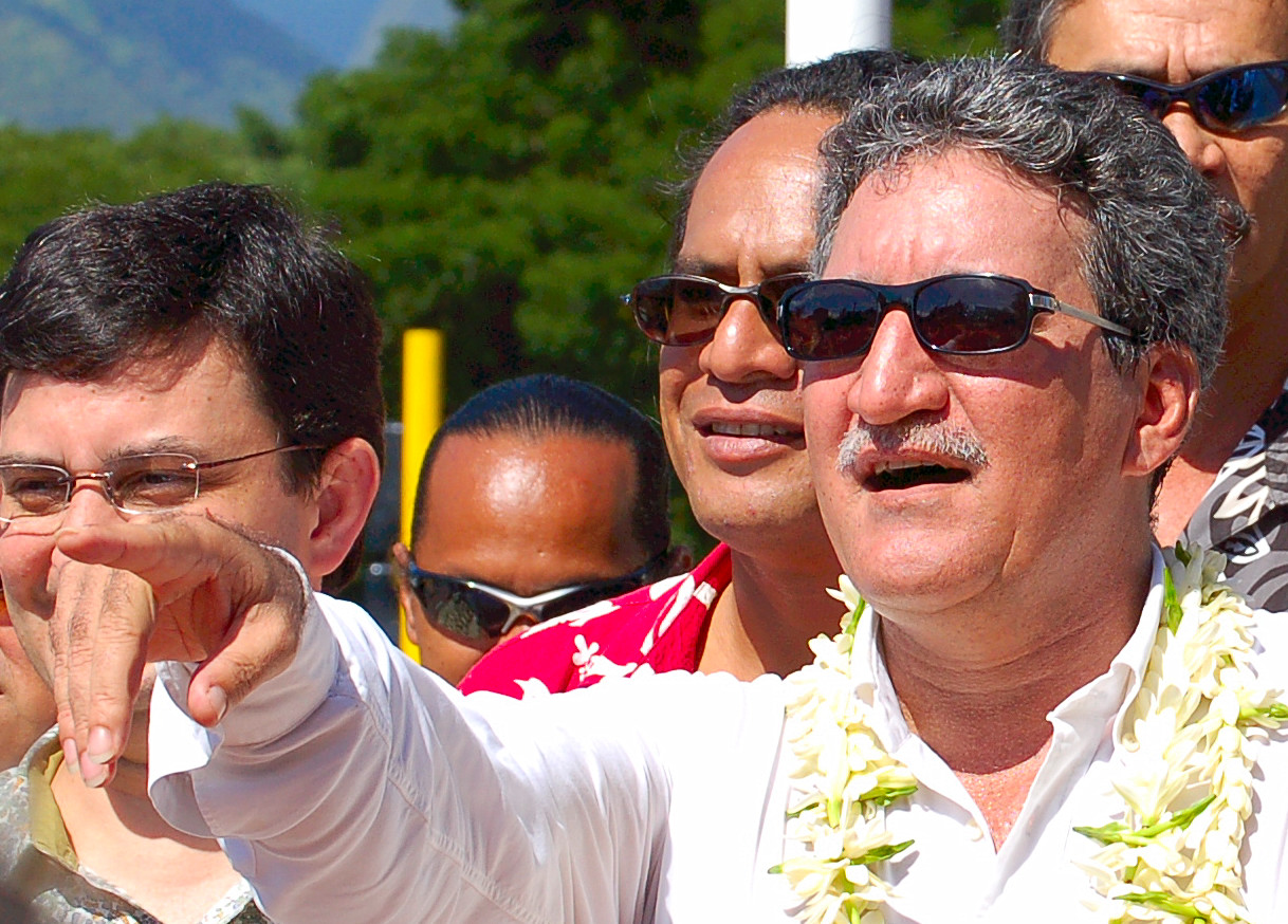 Jean-Christophe Bouissou